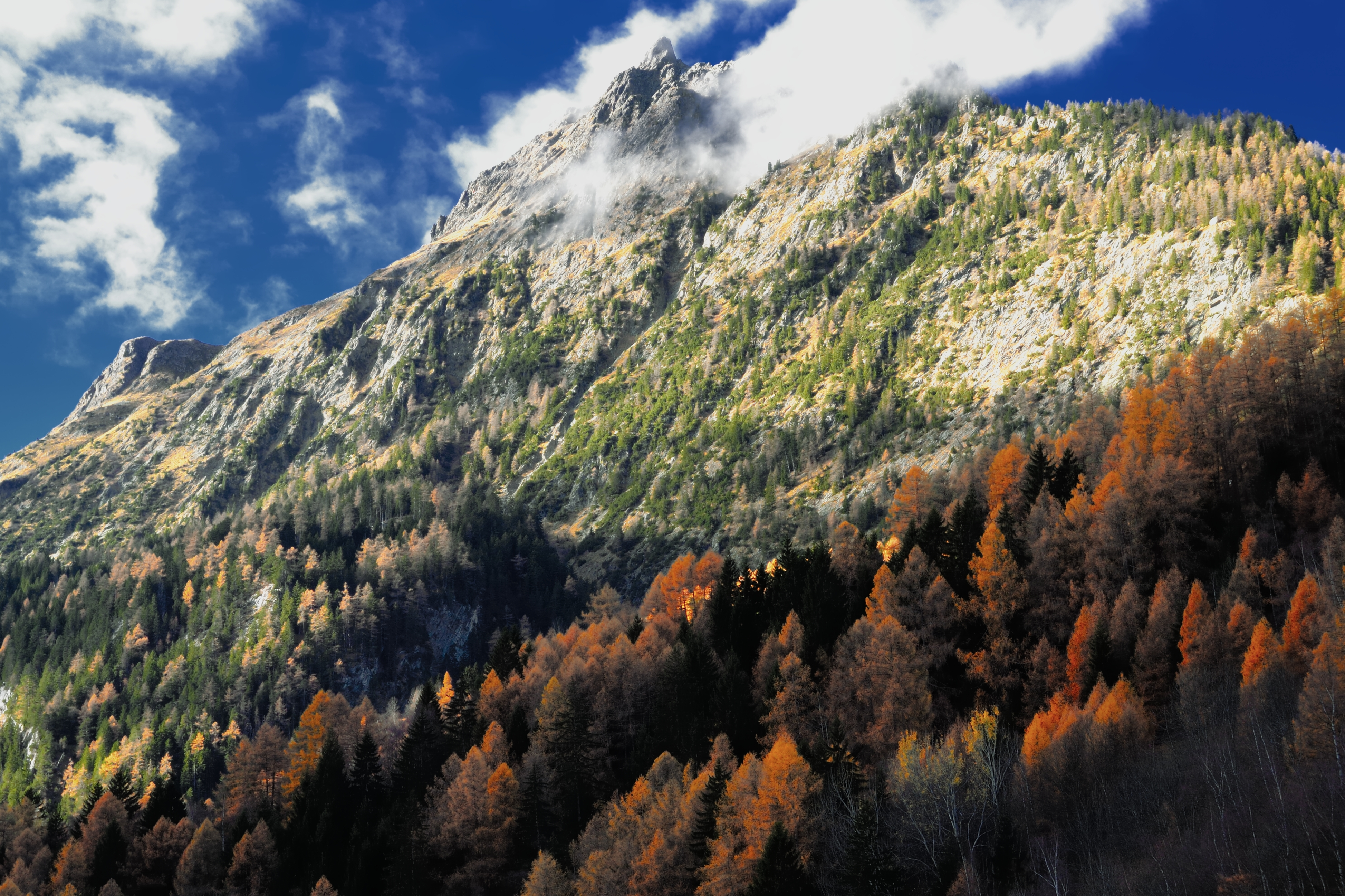 Le Châtelet from near Som la Proz (Valais)